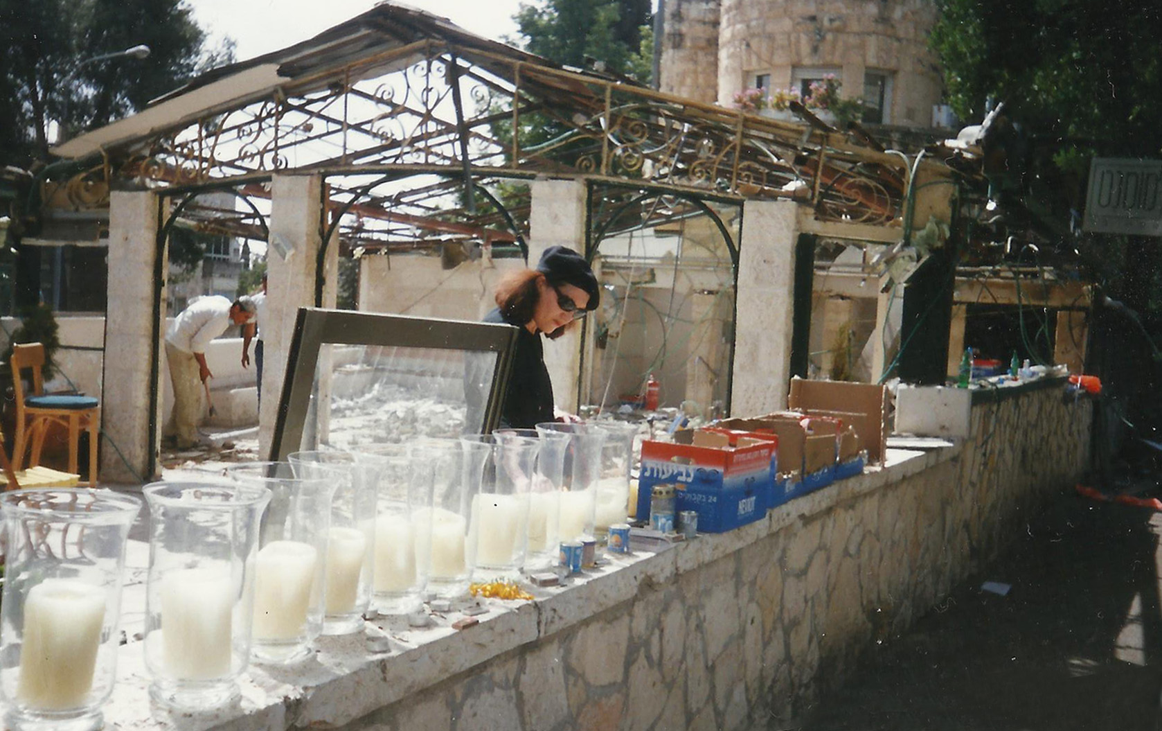 Rows of silent memorial-candles at the elegant street element separating the wreck of Café Moment from the Sderot Ben Maimon sidewalk, essentially reminding that nothing did actually stop the young Palestinian who came to this place on Saturday night to carry out his suicide attack taking the lives of a dozen peaceful guests.